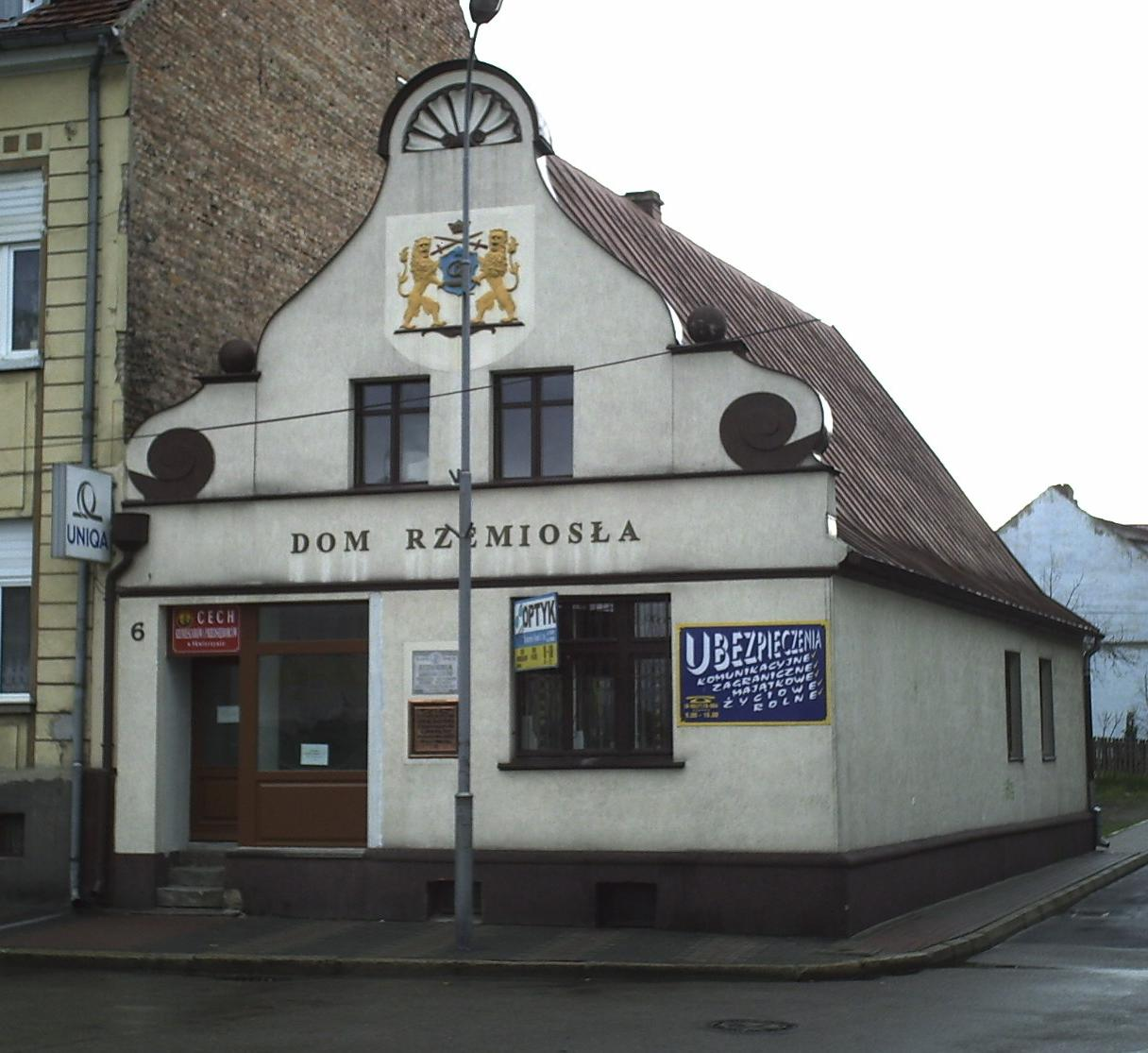 House of Craft, Skwierzyna (Lubusz Voivodship), Poland.